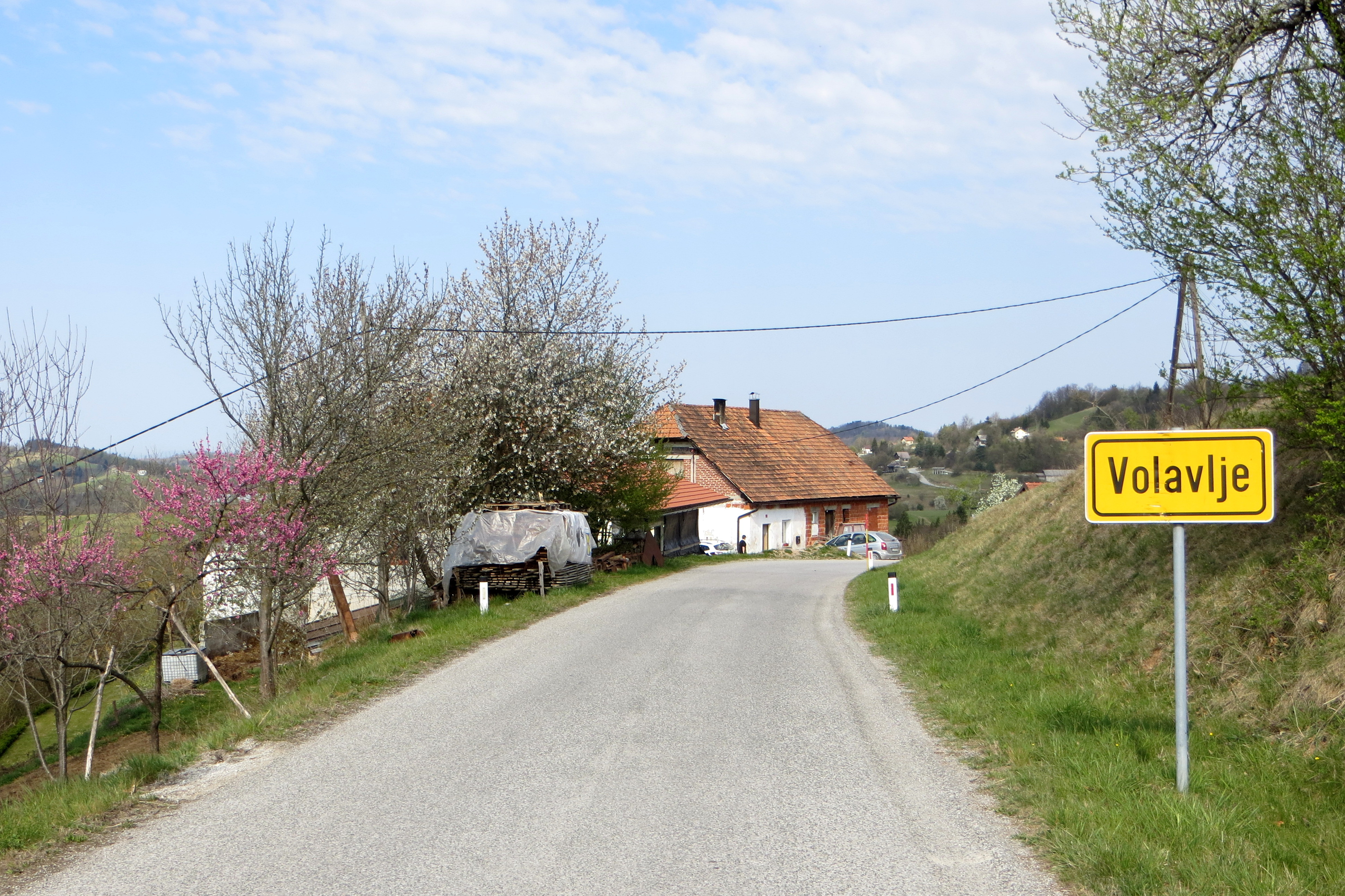 Volavlje, Municipality of Ljubljana, Slovenia